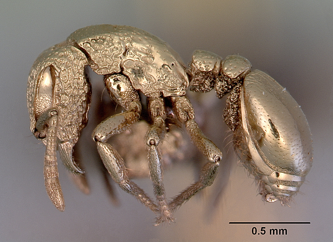 Profile view of ant Dacetinops darlingtoni specimen casent0172455. Note: The golden color is not natural. This specimen has been "sputter coated" with gold to increase visibility for scanning electron microscopy (SEM).